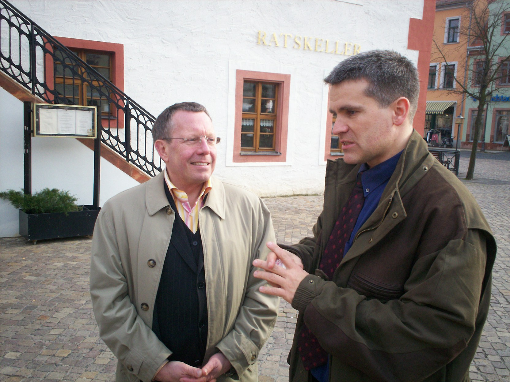 German politican Michael Weichert (left) and mayor Matthias Berger (right) during Weichert’s stay in Grimma